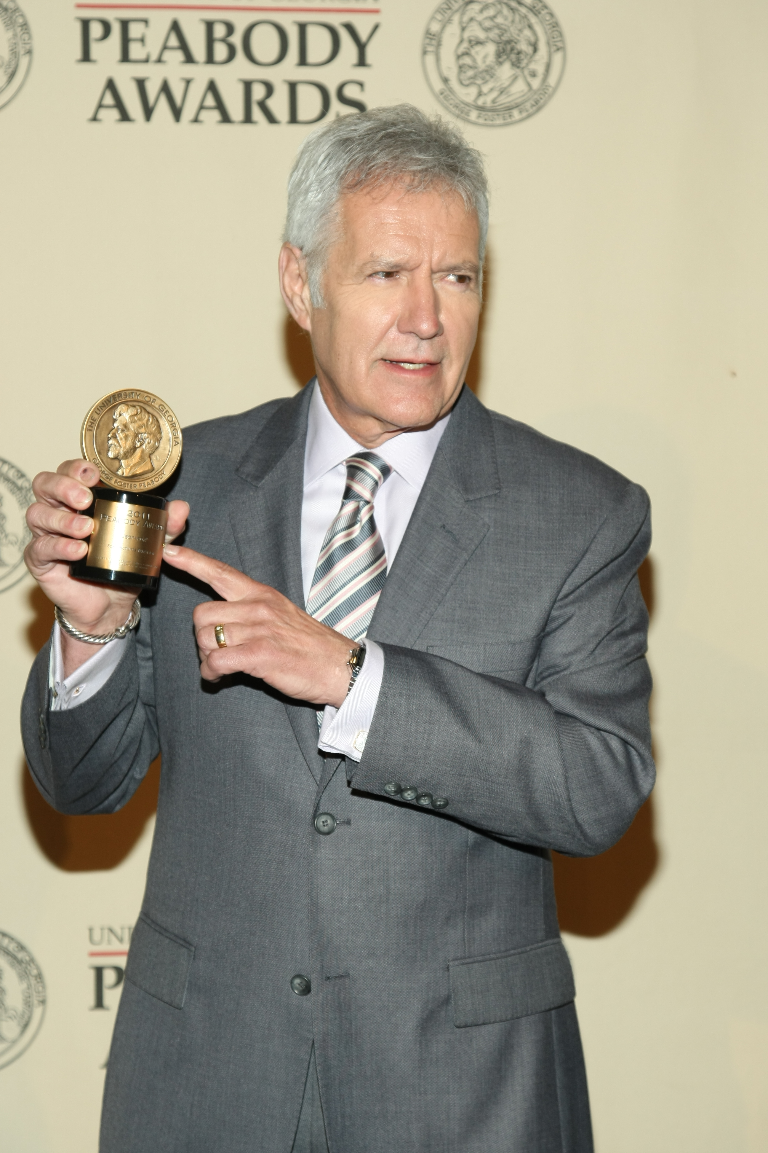 PHOTO CREDIT: ANDERS KRUSBERG / PEABODY AWARDS 71st Annual Peabody Awards Luncheon Waldorf=Astoria Hotel May 21, 2012